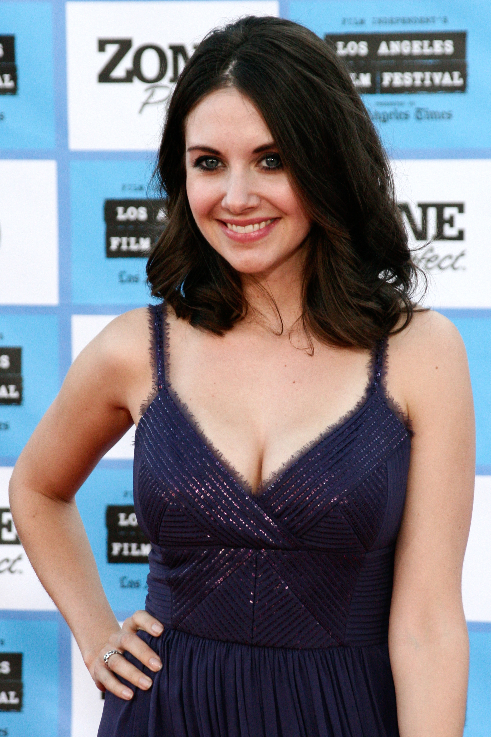 Alison Brie at the red carpet film premiere of Public Enemies at the Mann Village Westwood during the 2009 Los Angeles Film Festival.